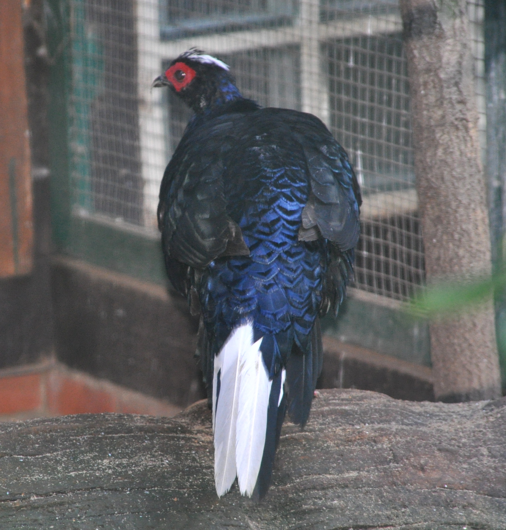 Vietnamese Pheasant (Lophura hatinhensis) in the Walsrode Bird Park, Germany.